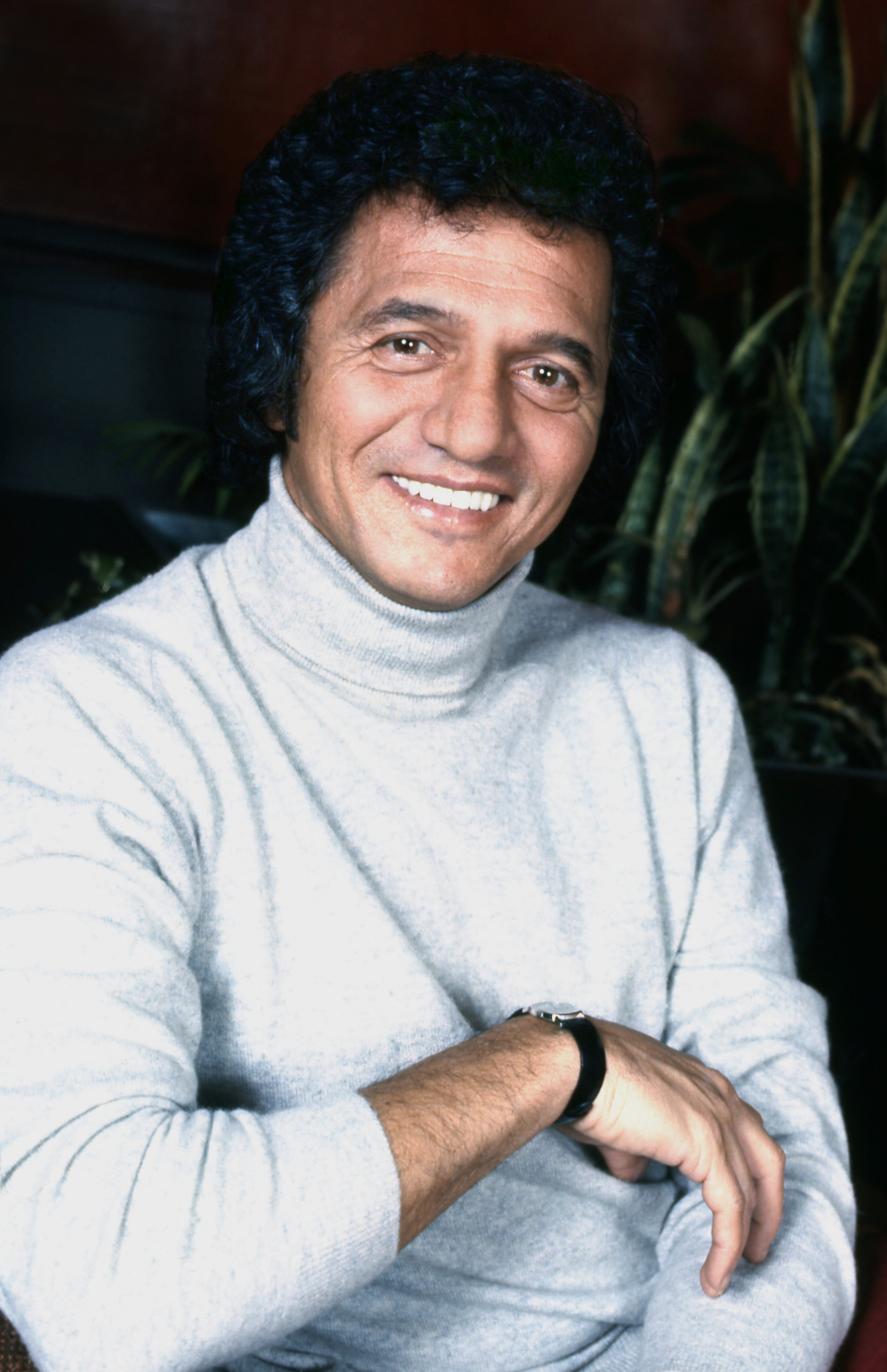 Buddy Greco taken in London